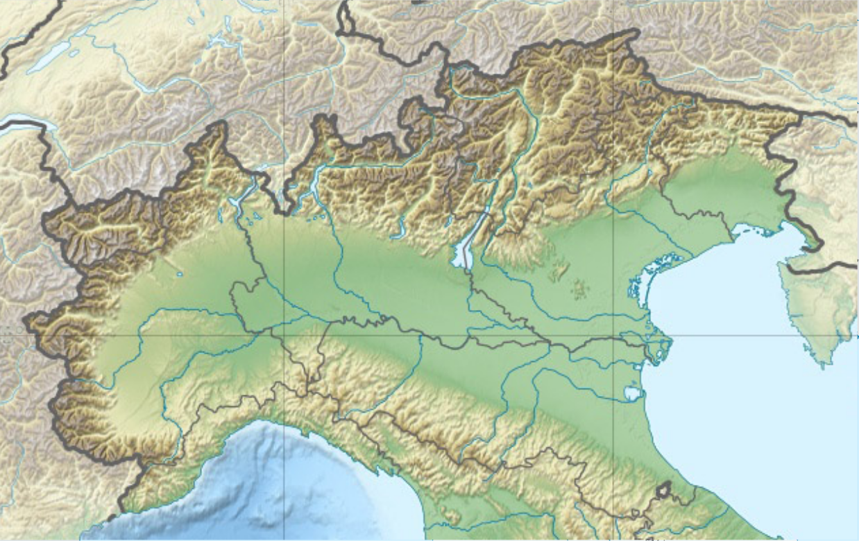 Blank physical map of Northern Italy, for geo-location purpose. Equirectangular projection, WGS84 datum *Standard meridian: 012° 36' E *Central parallel: 41° 21' N Geographic limits of the map: *West: 6.4° E *East: 14.1° E *North: 47.3° N *South: 43.6° N